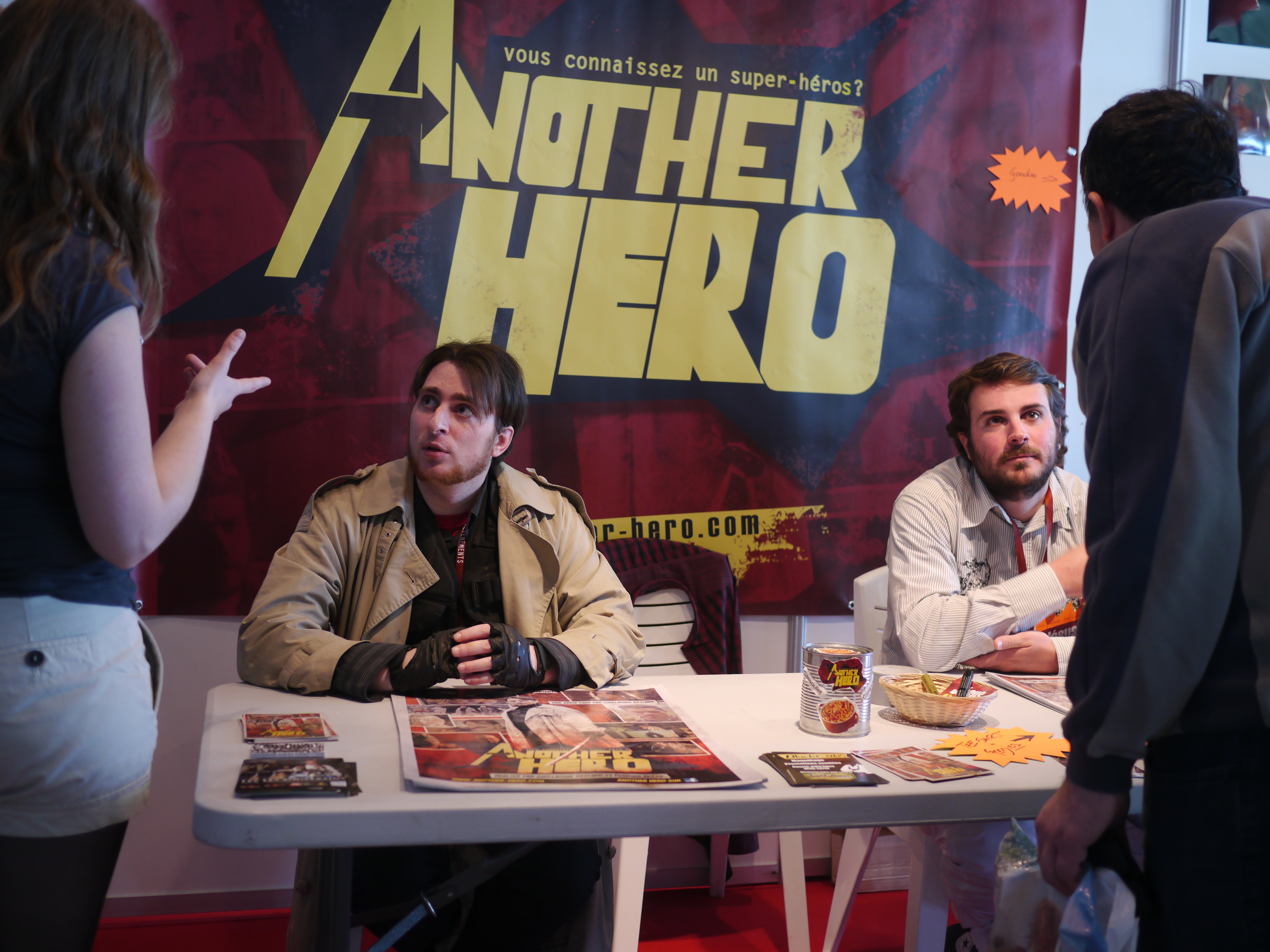 Monaco Anime Game Show Festival; 2013